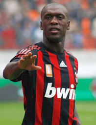 Clarence Seedorf at the Russian Railways Cup